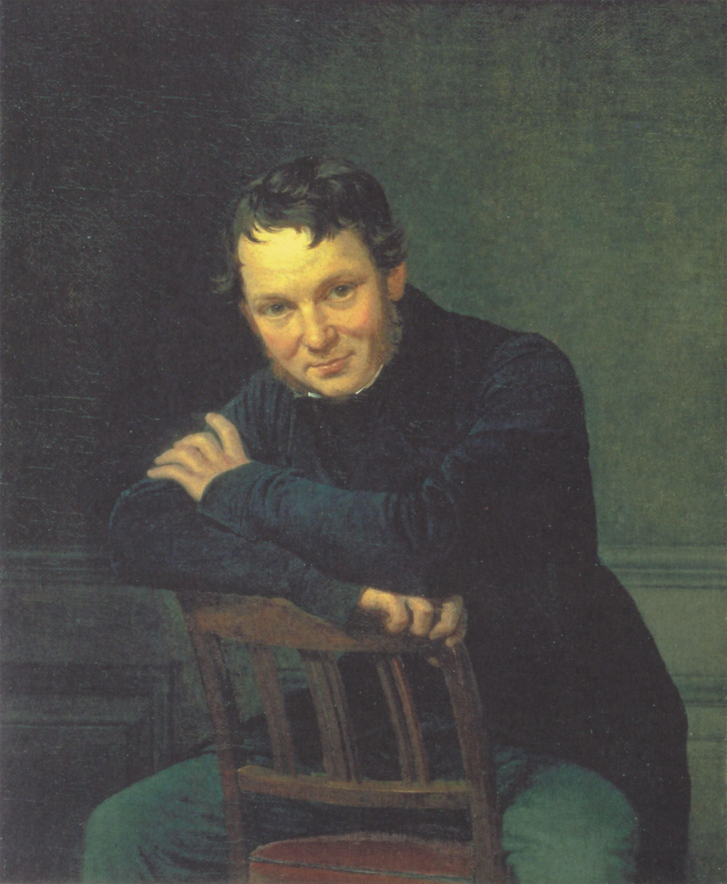 The architect Gottlieb Bindesbøll was a close friend of the painter Wilhelm Marstrand.